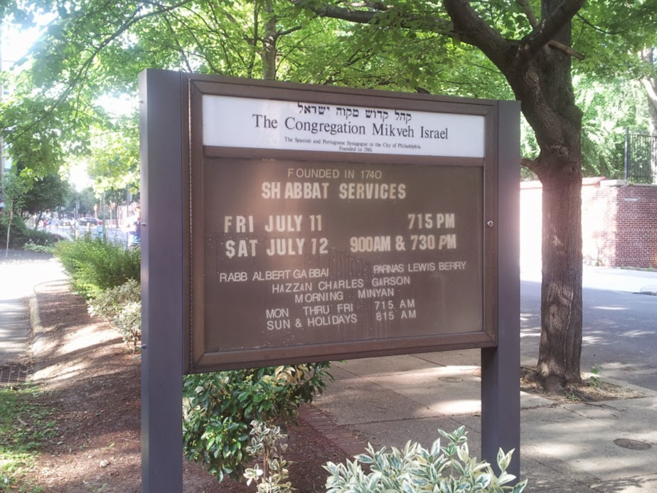 Congregation Mikveh Israel, 44 N 4TH ST, Philadelphia (July 2014)